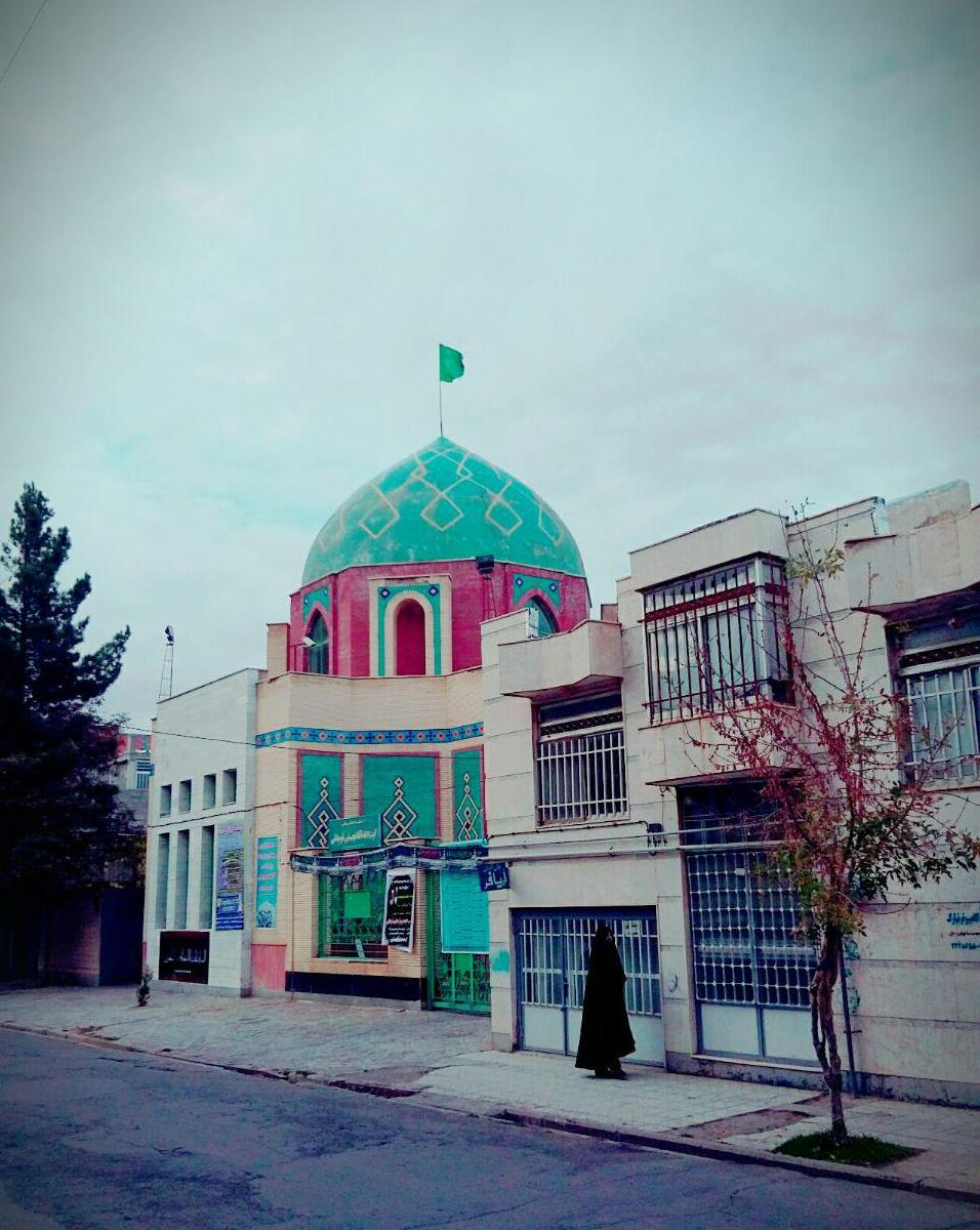 At the center of the photo, the green dome represents the burial place of one of shia's pious scholars, Ayatollah Aqa Najafi Quchani. He passed away when he was 68 years old and was later buried in the city of Quchan, a county in Razavi Khorasan Province in Iran.